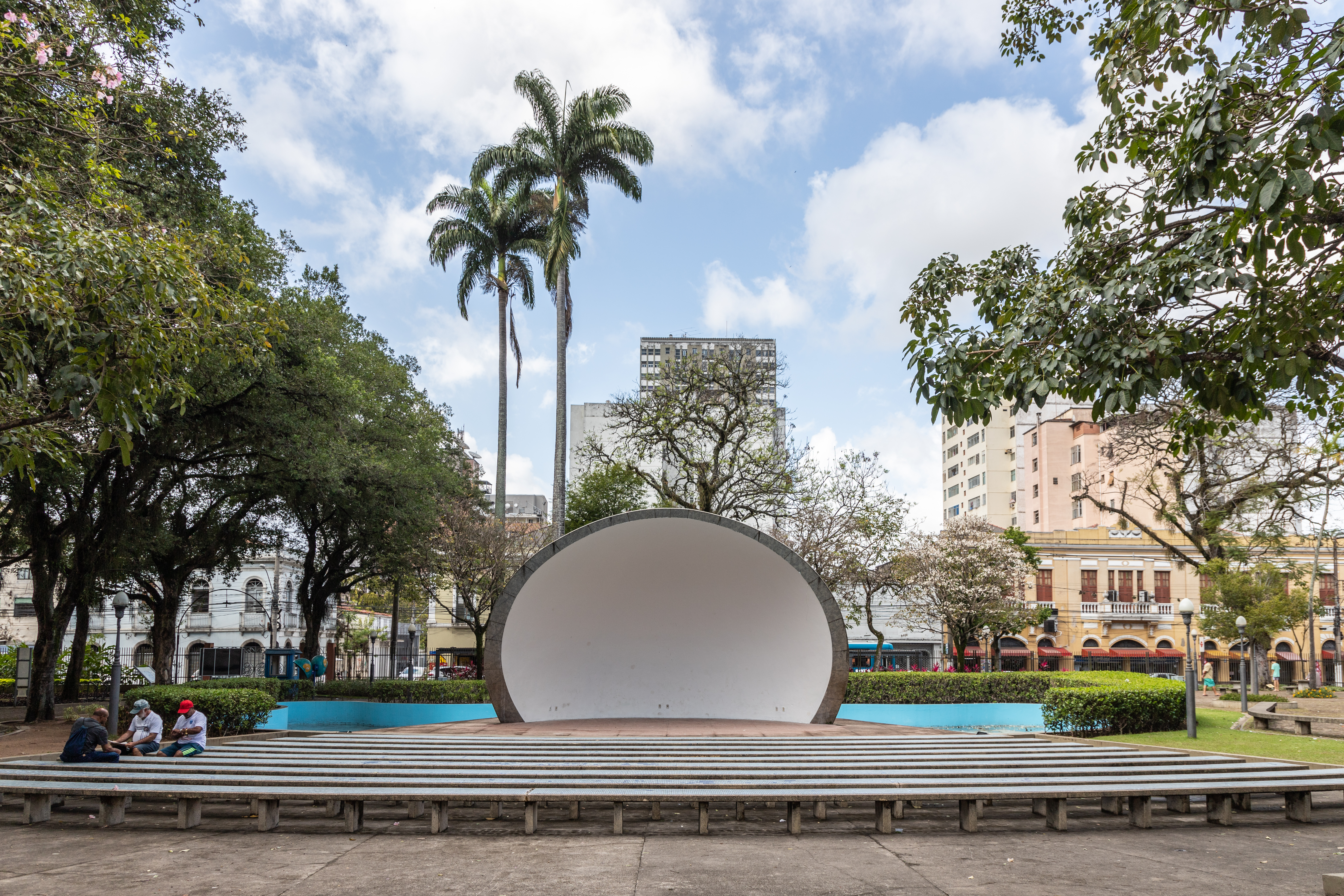 Concha Acústica (Acoustic shell), Parque Moscoso, Vitória, Espírito Santo, Brazil.